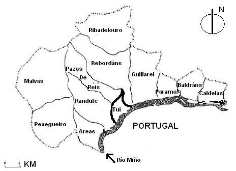 A map of the administrative organization in Tui